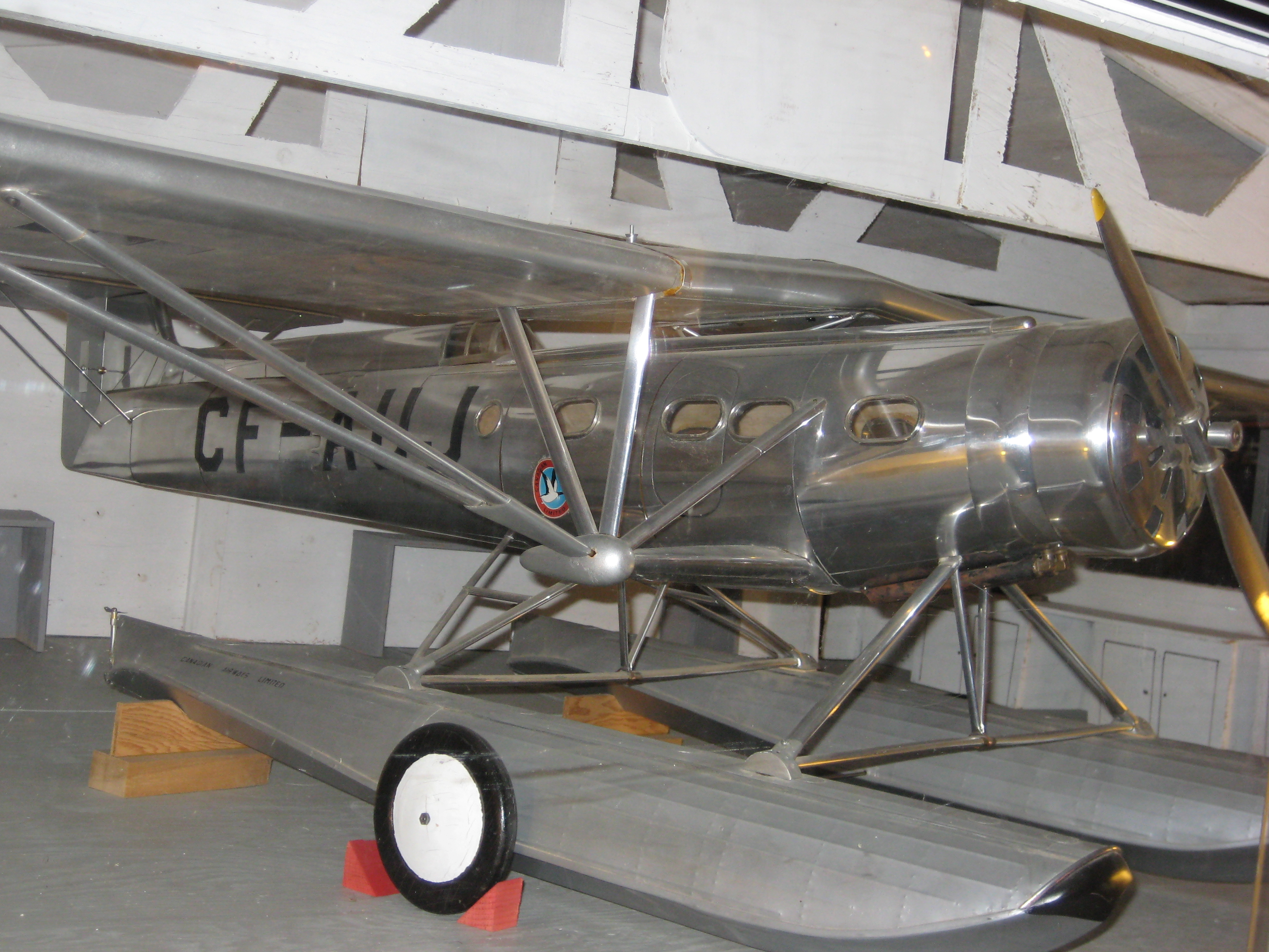 Fairchild Super 71